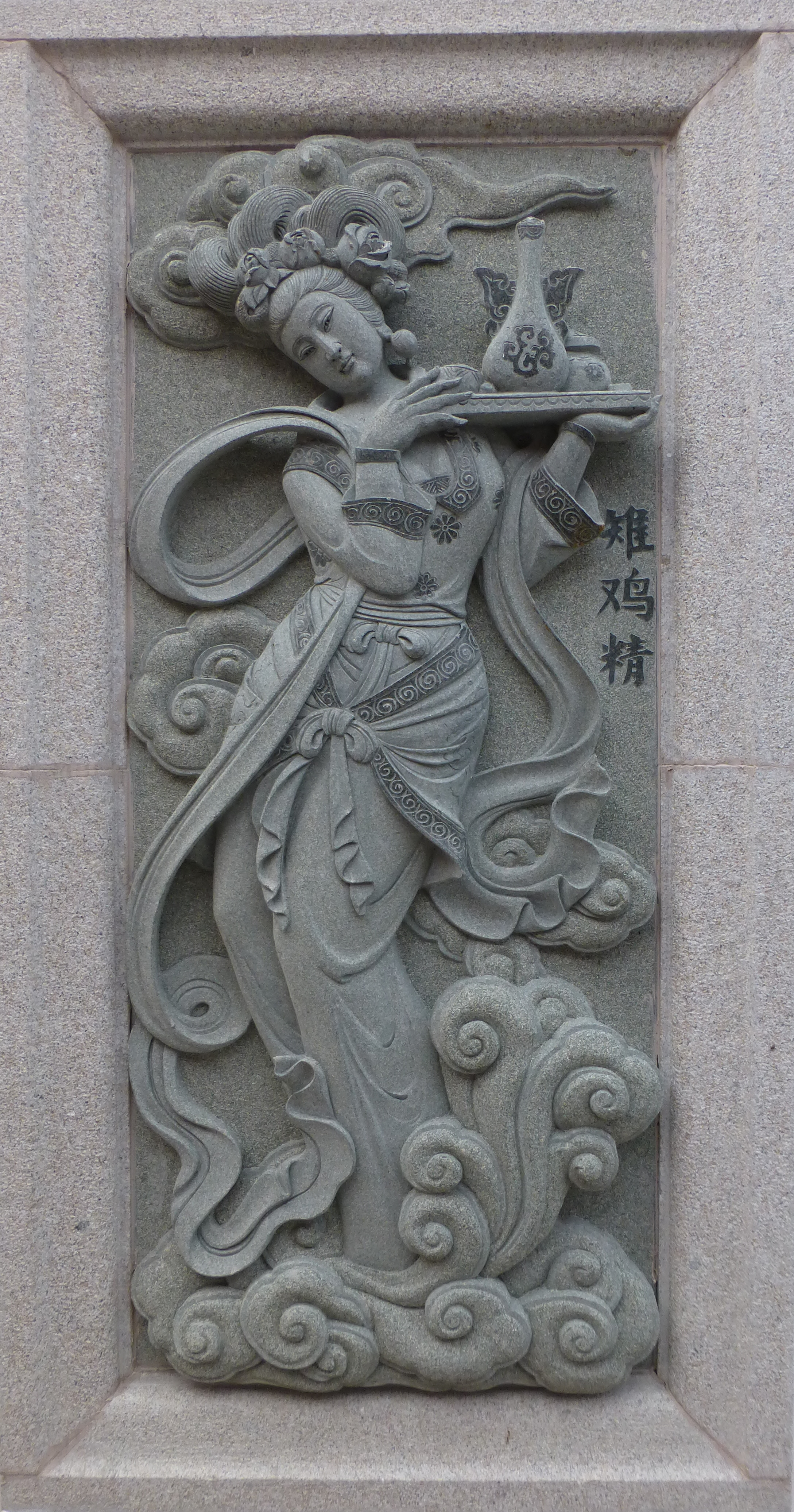 027 Zhi ji Jing, Investiture of the Gods at Ping Sien Si, Pasir Panjang, Perak, Malaysia Photograph from the Ping Sien Si Temple in Perak, Malaysia taken by Anandajoti.